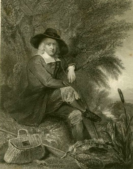 Izaak Walton. Engraving by James Inskippipinx for "The complete angler, or, The contemplative man's recreation: being a discourse of rivers fish-ponds fish and fishing" by Izaak Walton. Publicher William Pickering 1836